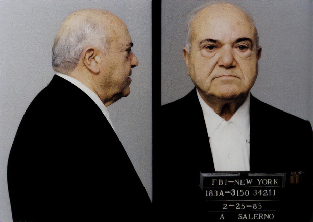 Mug shot of Anthony Salerno taken following his arrest.